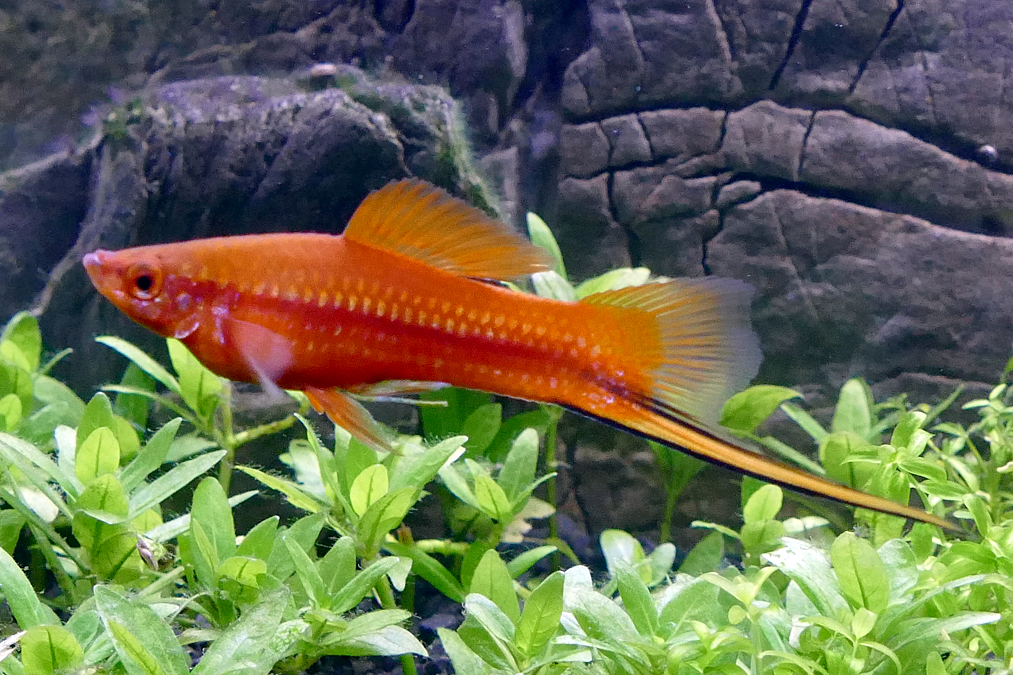 Xiphophorus Hellerii, Swordtail, red (male)